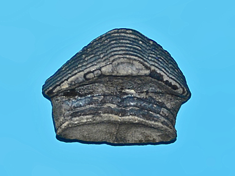 Fossil dental plate of Diodon. Miocene of United States. On display at the Museo Civico di Storia Naturale di Milano